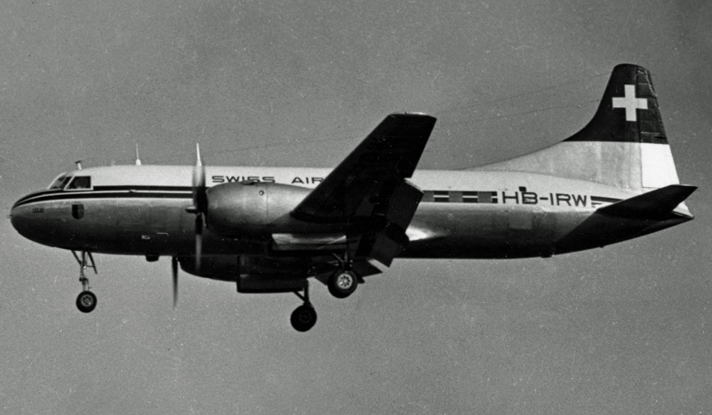 Convair 240 HB-IRW of Swissair landing at Manchester Airport in 1954.